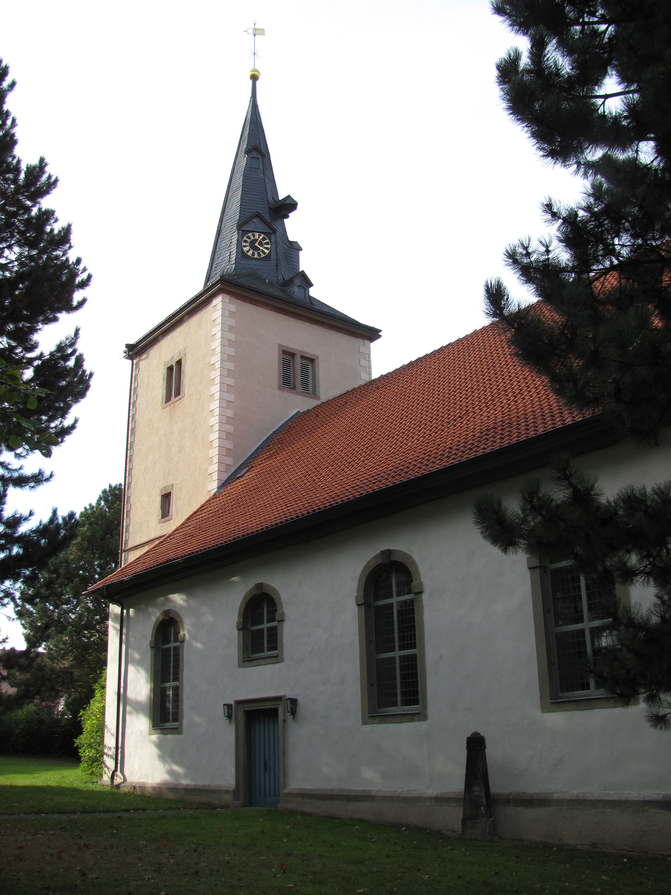 Protestant Church, Adenstedt near Hildesheim, Lower Saxony, Germany